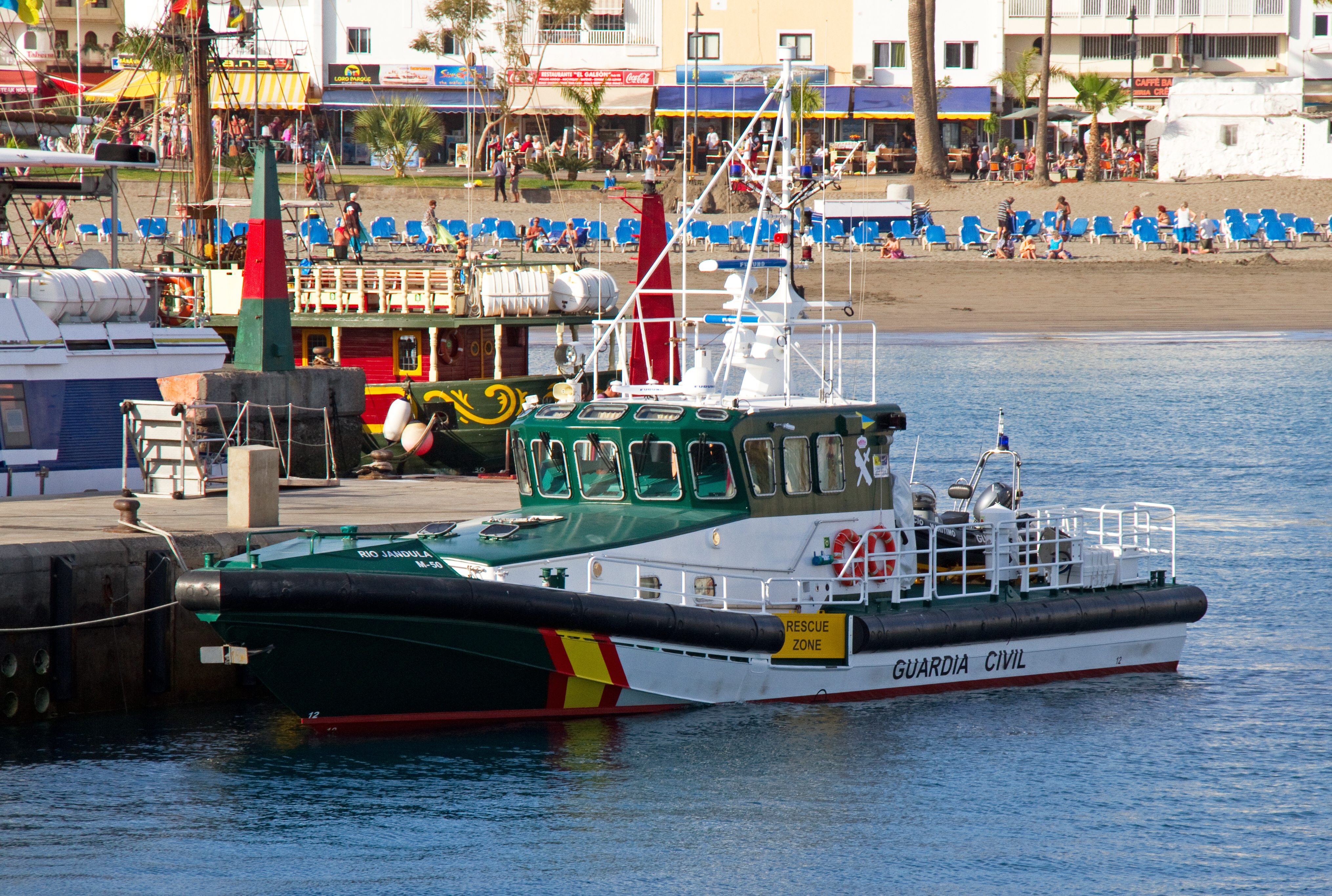 Waiting for the Ferry to take us from Tenerife to La Gomera